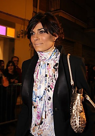 Italian actress Valeria Solarino